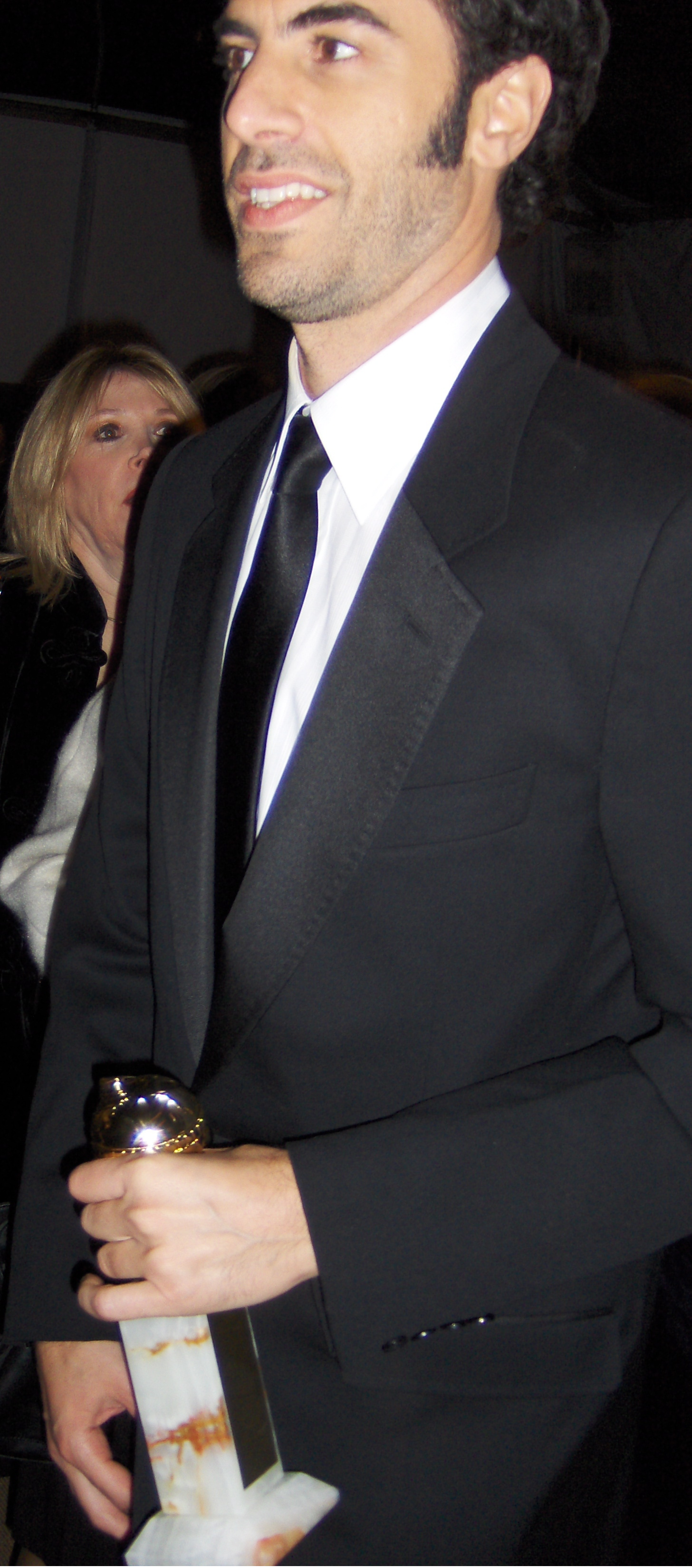 Sacha Baron Cohen at the E! after-party after the 64th Annual Golden Globe Awards.